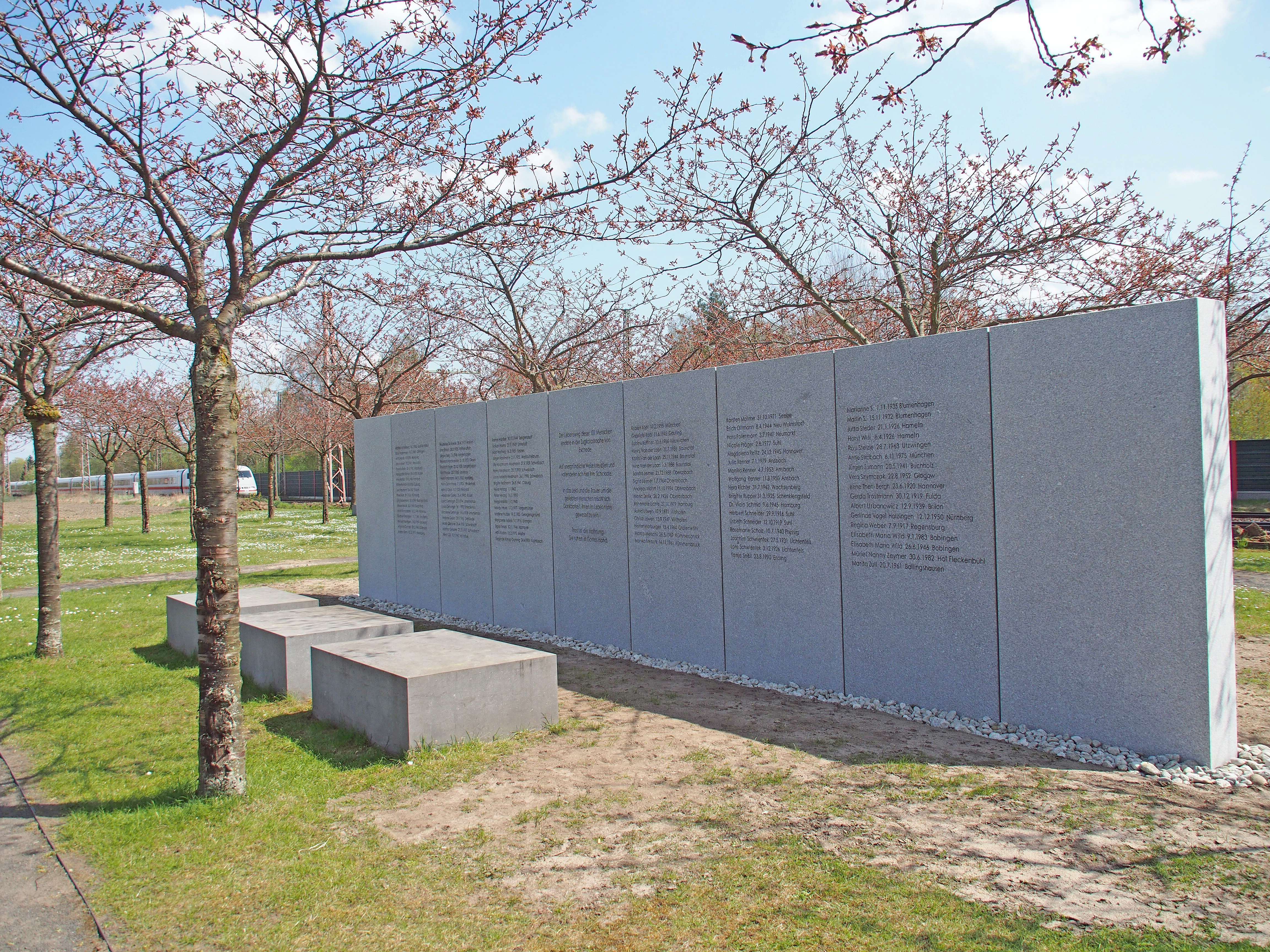 Memorial for the Eschede train disaster.